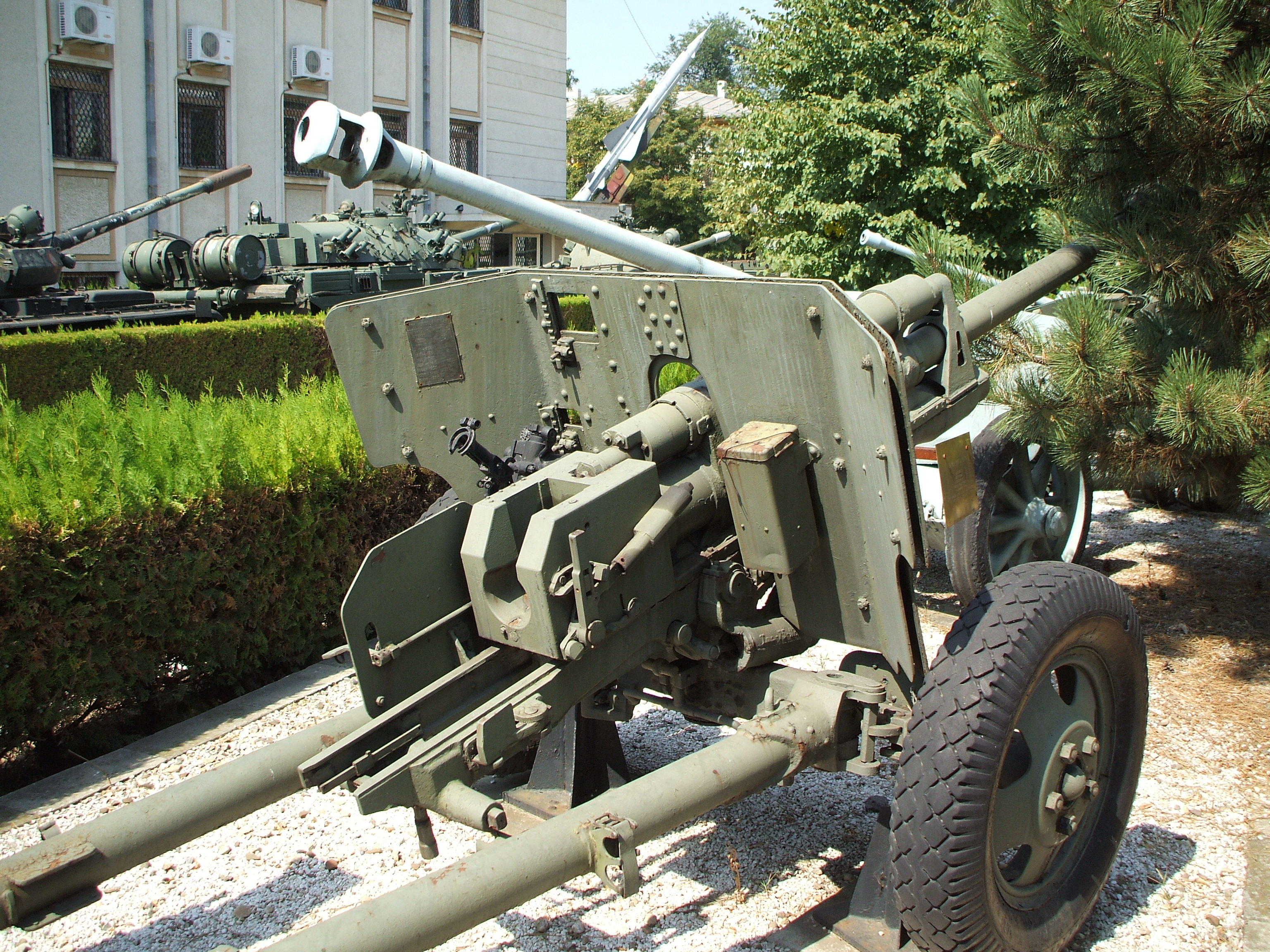 75 mm Reşiţa Model 1943 anti-tank gun close-up